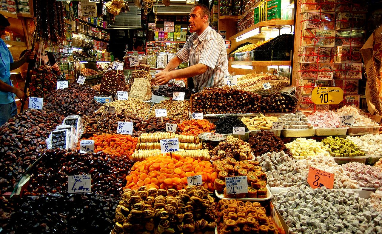 Preserved fruits and Turkish Delight shop in Spice Bazaar, Istanbul, Turkey.